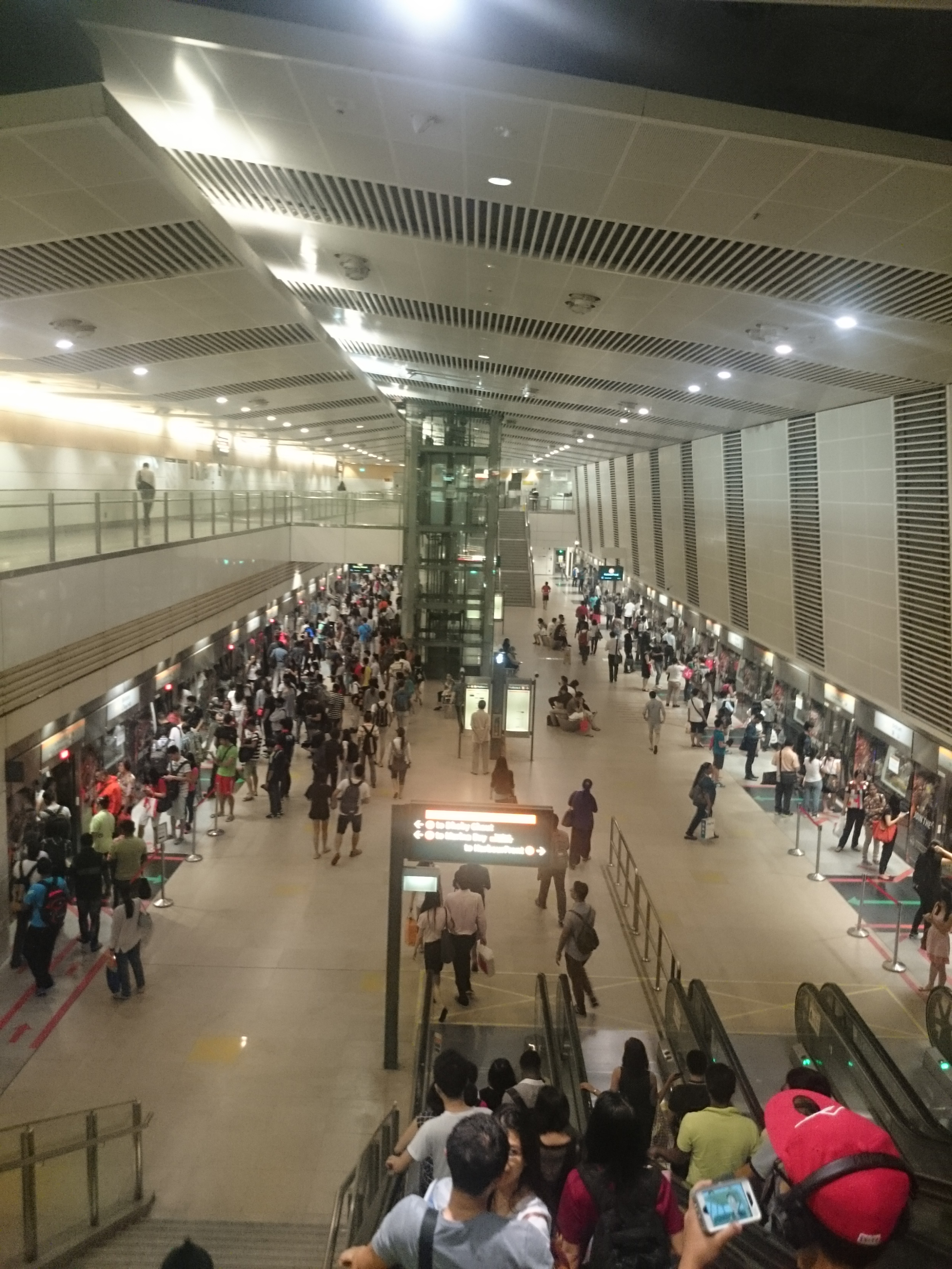 Rush hour in Bishan MRT Station Circle Line